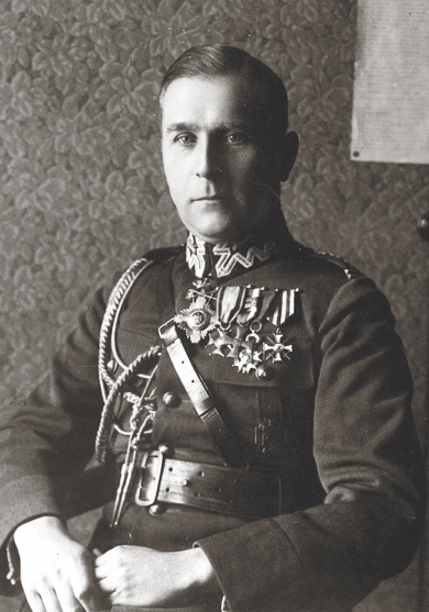 Tadeusz Kutrzeba (1886-1947) - General of the Polish Army